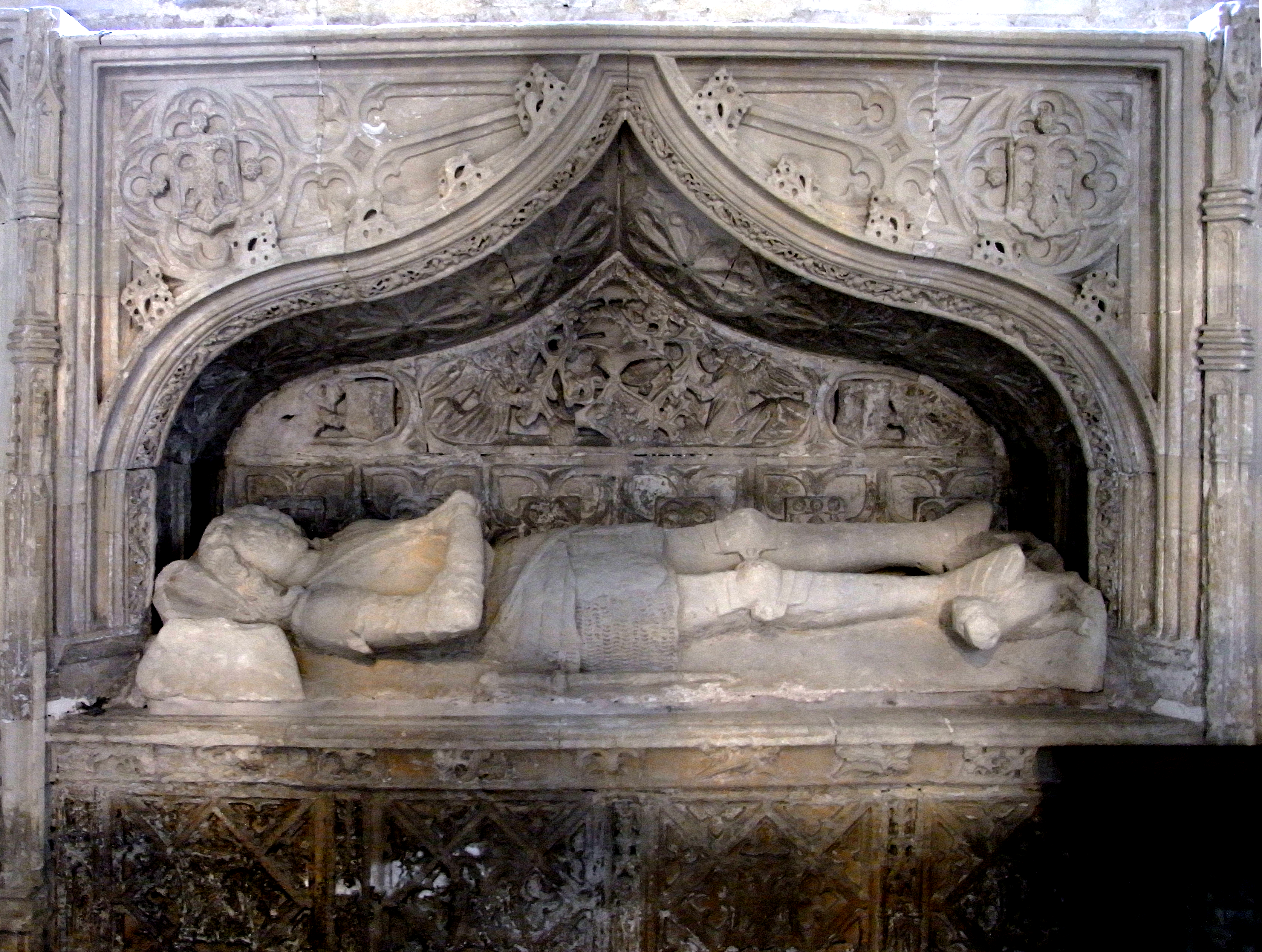 Recessed canopy with Gothic ogee arch containing effigy of Sir John Speke (d.1518), Speke Chantry, Exeter Cathedral, Devon, England